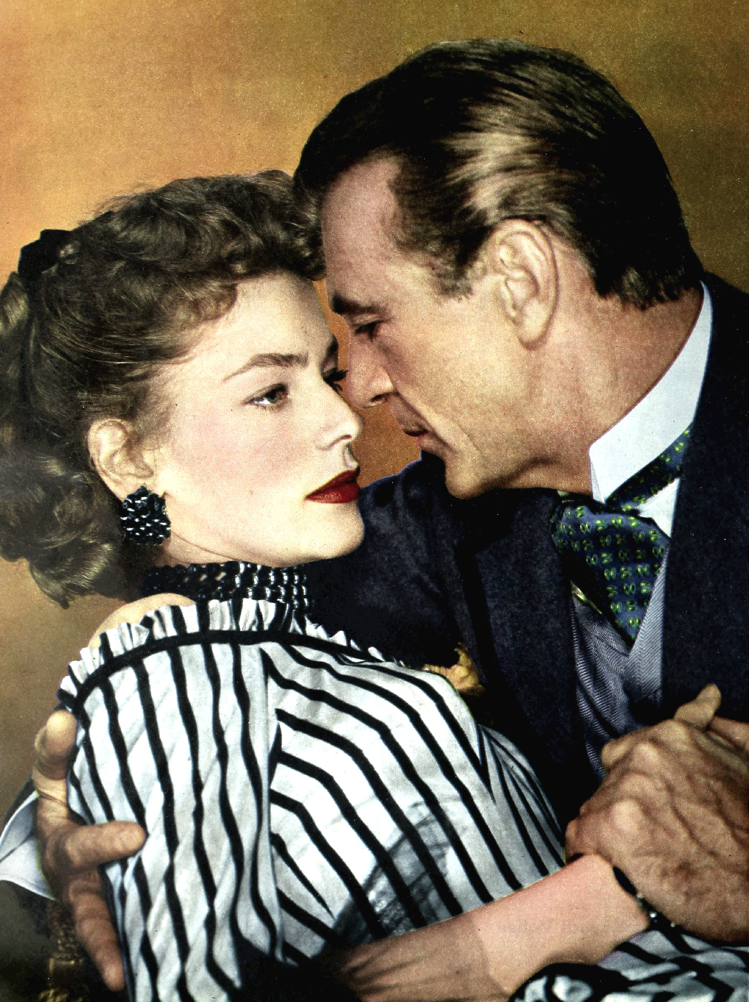 Photo of Lauren Bacall and Gary Cooper from the film Bright Leaf (1950).